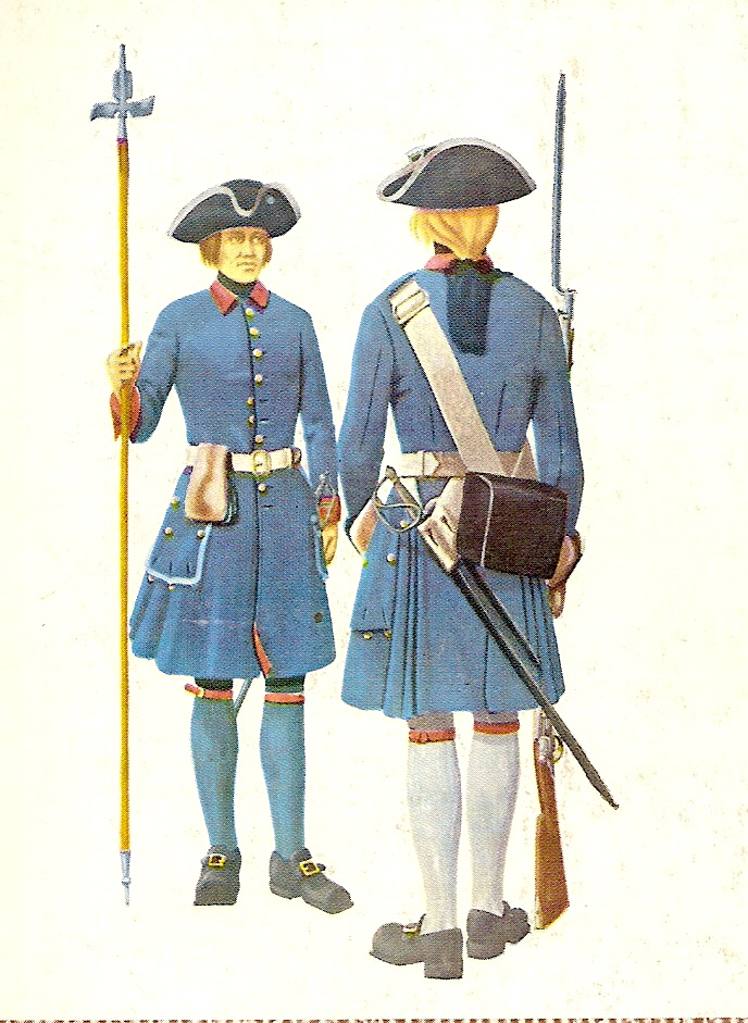 Finland niforms 1705. The olde Militia of Oulu and Nothern Finland regiment